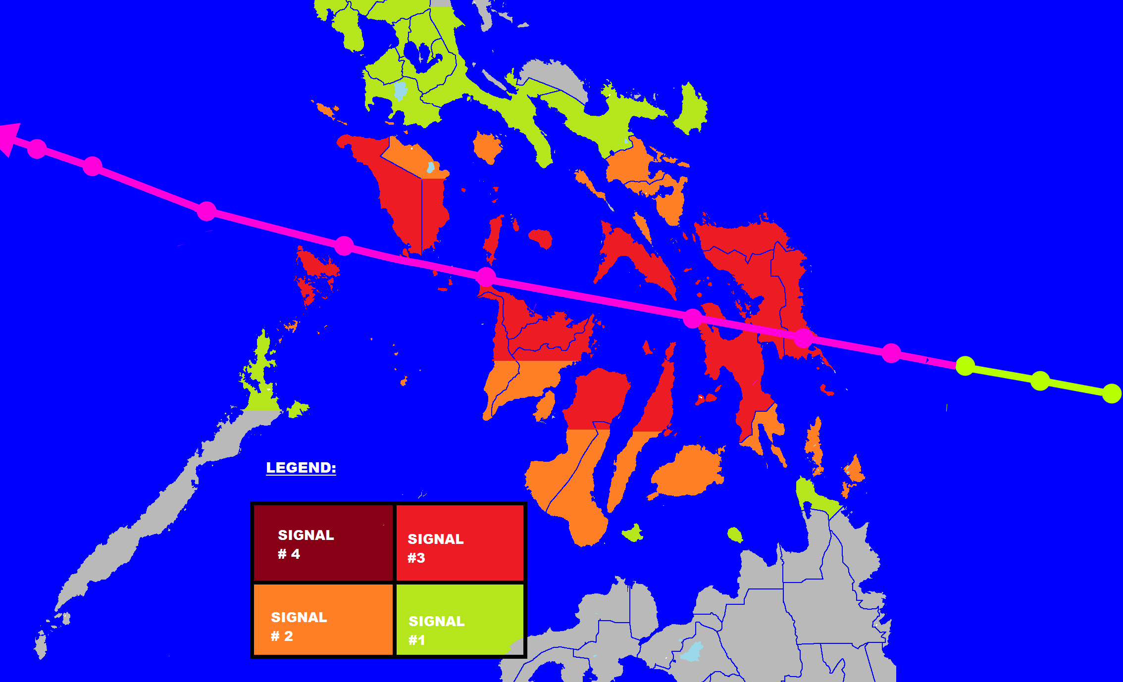 Highest Public Storm Warning Signals raised by PAGASA throughout the Philippines due to UTOR (2006)